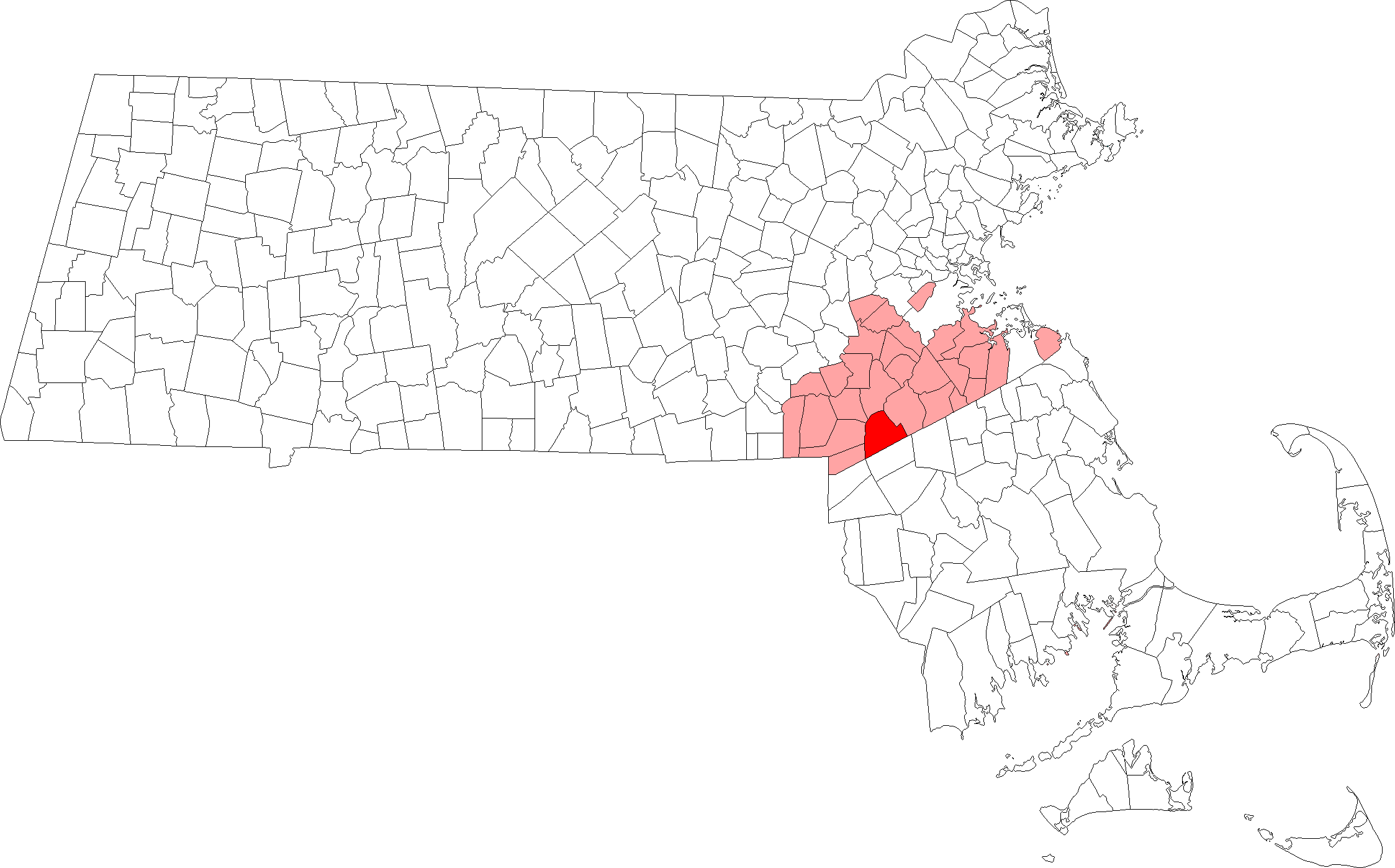 Location of Foxborough in Norfolk County, Massachusetts